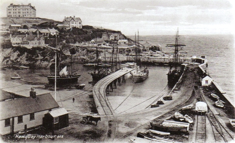 A view of Newquay harbour in the early years of the twentieth century, when a tramway still served the quays at which sailing ships are tied up. The harbour was built in this form in the first half of the nineteenth century and was one of the few sheltered harbours on the north coast of Cornwall in the United Kingdom.